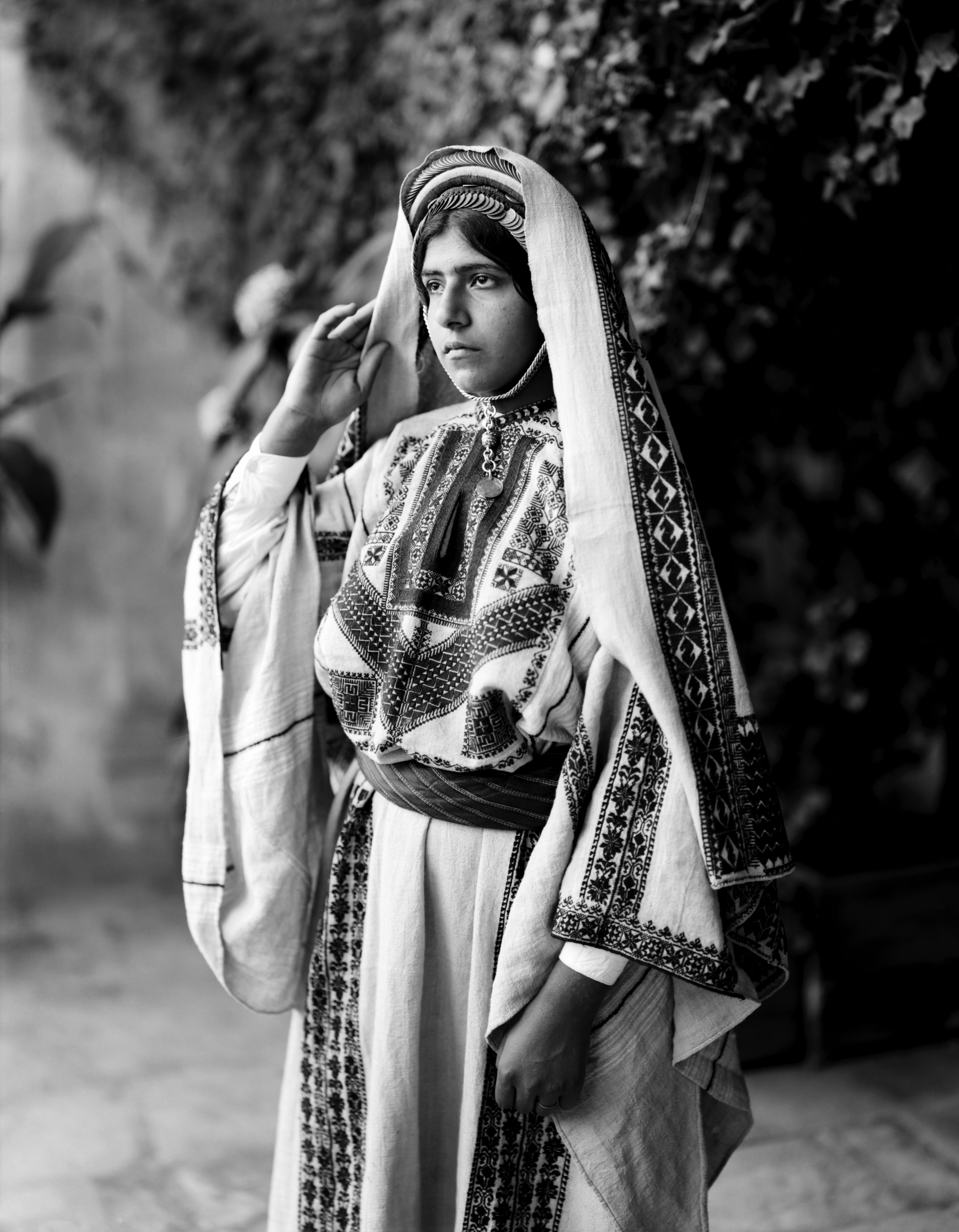 Costumes and characters, etc. Girls of Ramallah. Medium: 1 negative : glass, dry plate ; 10 × 12 in. Fahra Izhak Eadeh on her wedding day, Ramallah. (Source: Mia Grondahl, The Dream of Jerusalem, p. 134.) Young woman of Ramellah wearing dowry headdress.